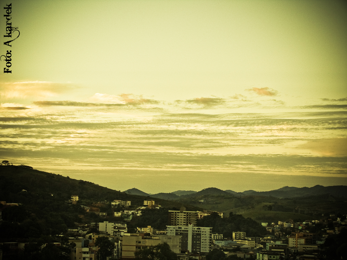 Partial view of Caratinga, Minas Gerais, Brazil.